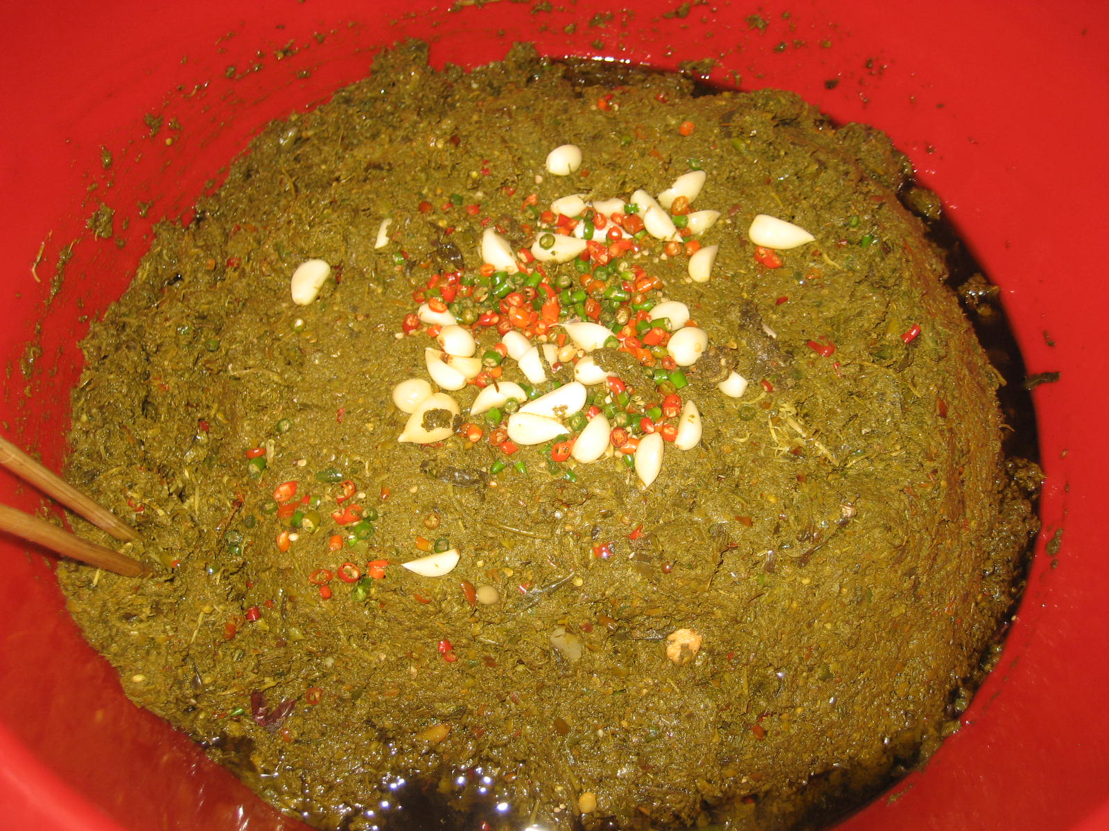 Lahpet sold at a market stall in Mandalay, Myanmar